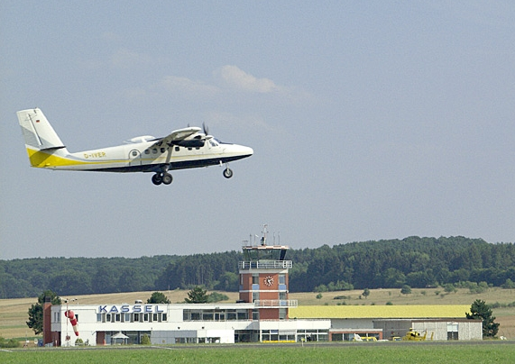 Flugplatz Kassel Calden